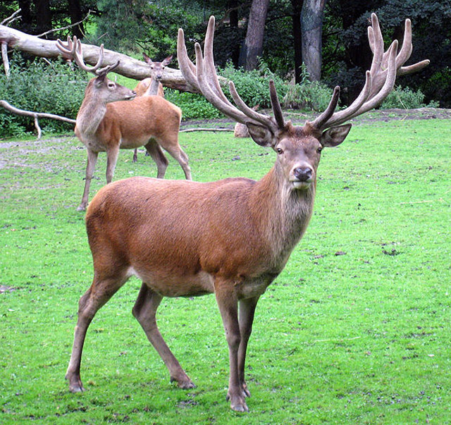 Dortmund, Tierpark, Rotwild, Cervus elaphus